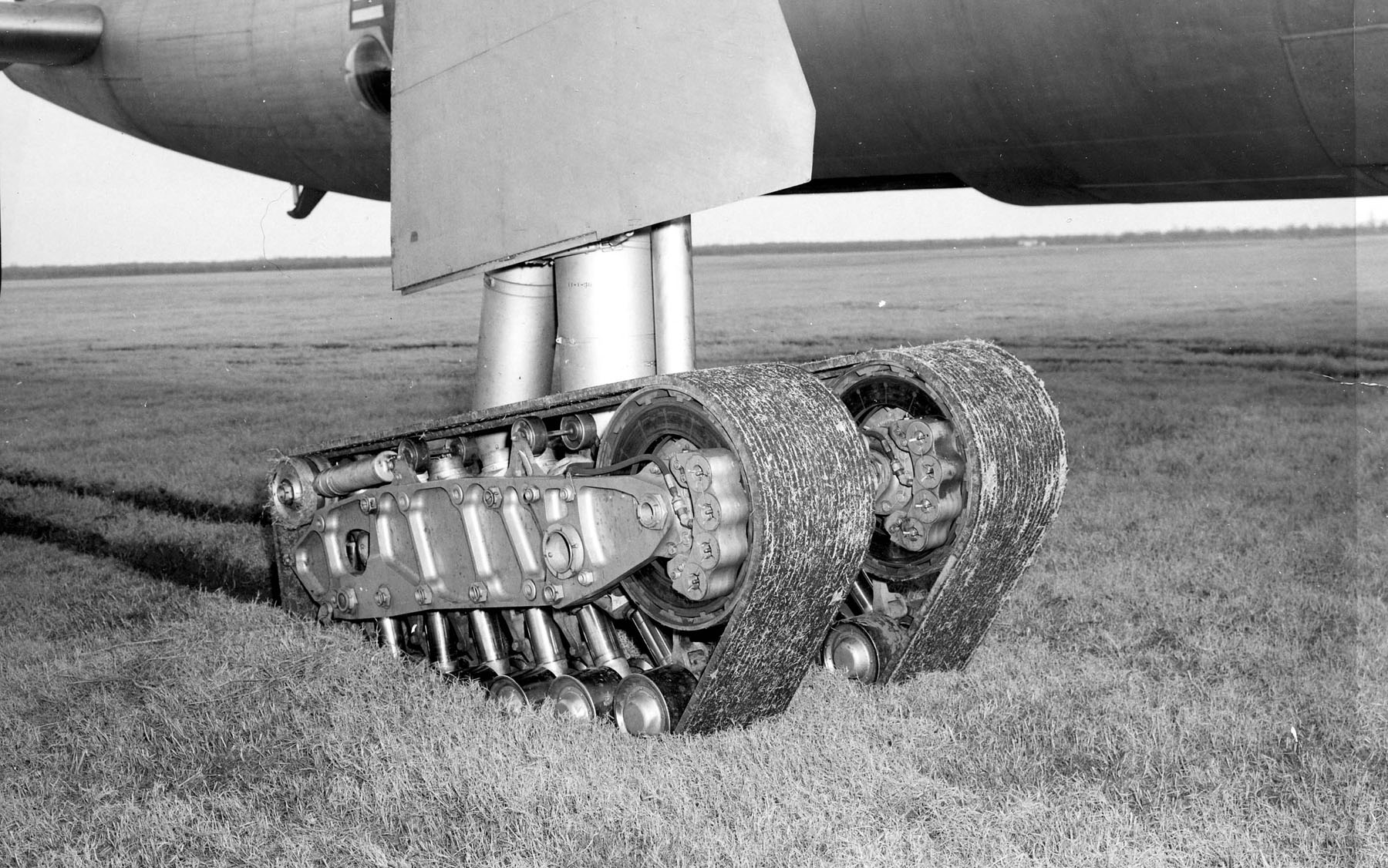 Convair B-36 with experimental tracked landing gear, to reduce ground pressure for soft-field use